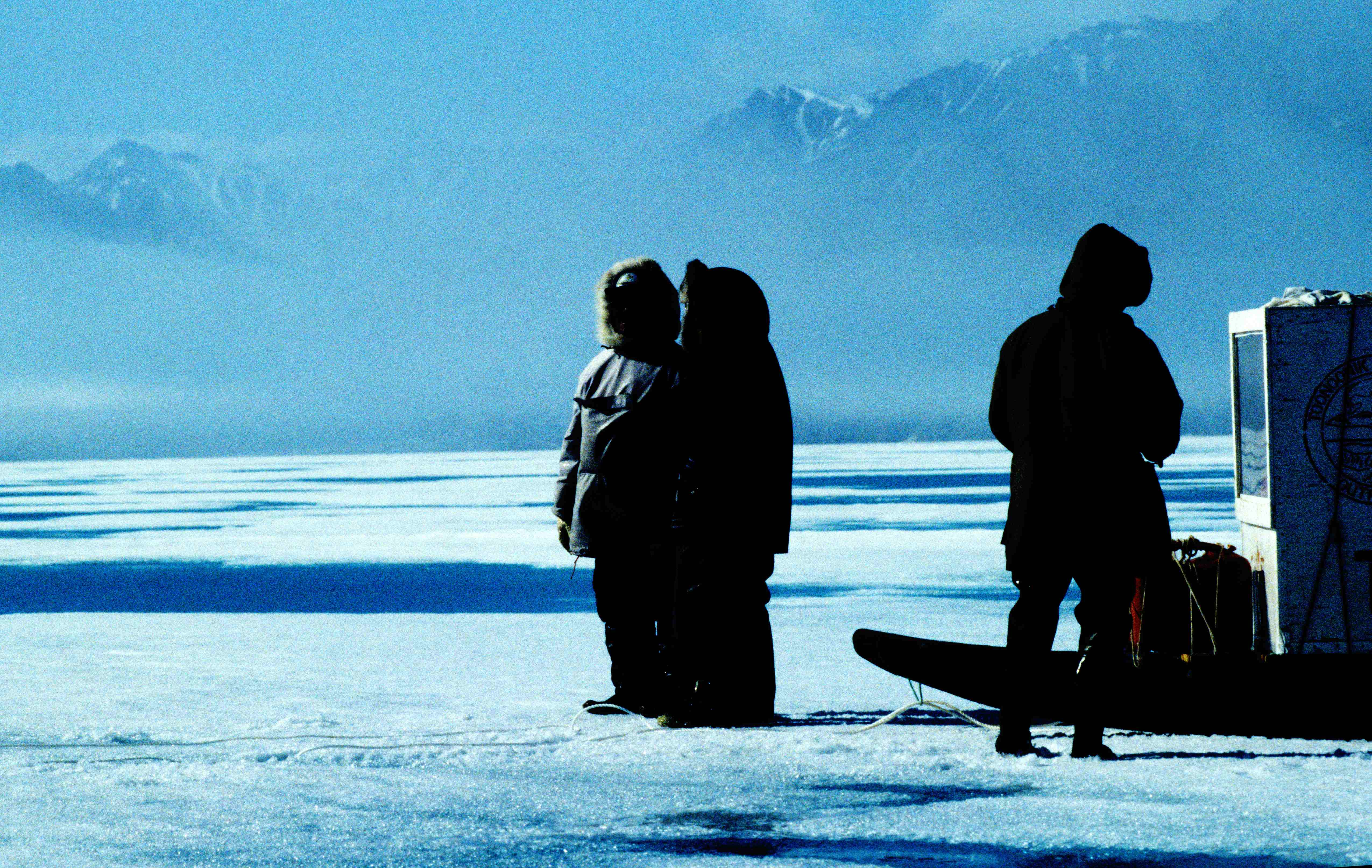 Inuit on the sea ice in front of foggy Bylot Island (Sirmilik National Park, Canada)